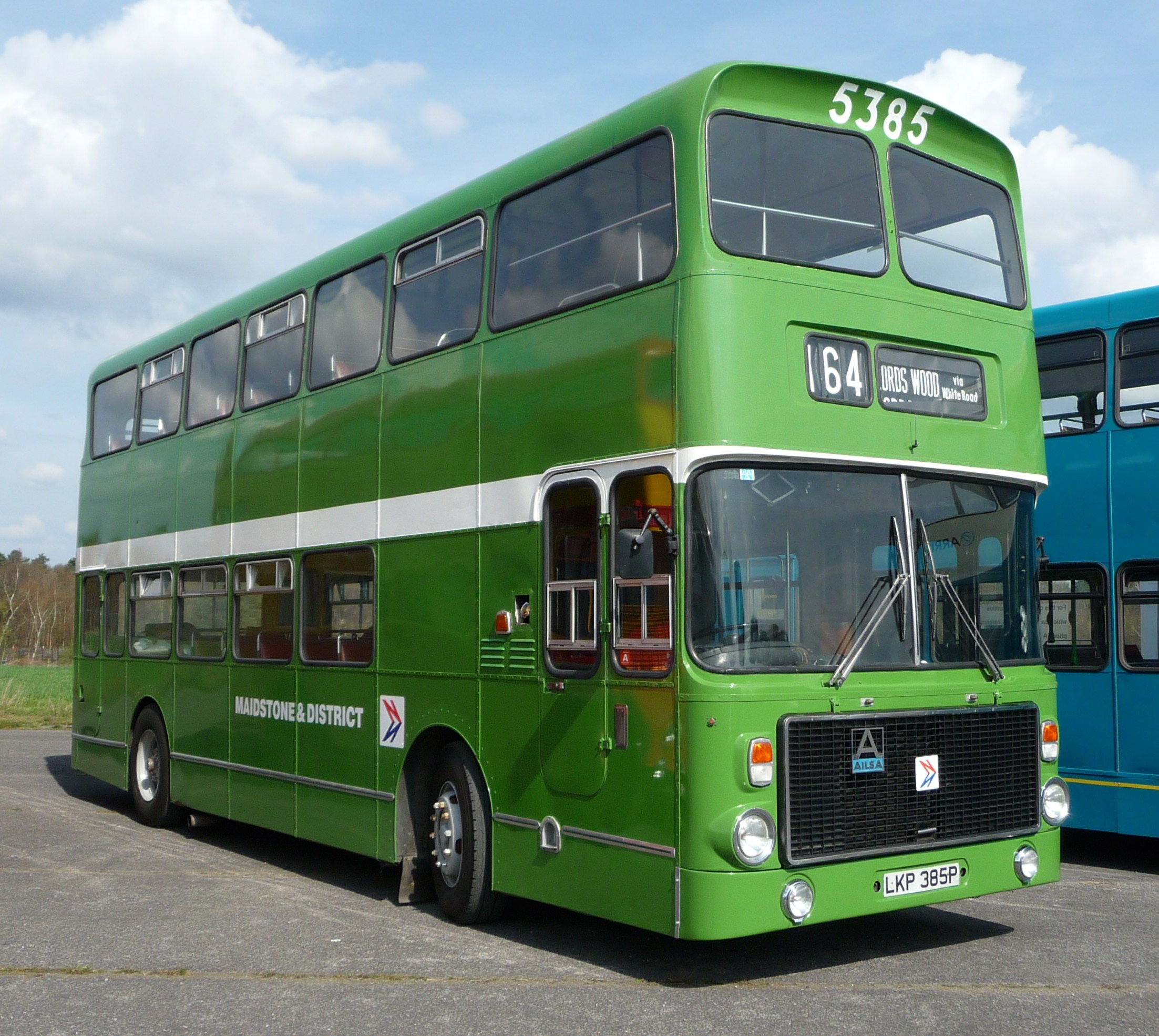 Preserved Maidstone & District bus 5385 (reg. LKP 385P), a 1975 Volvo Ailsa B55 double-decker with Alexander AV bodywork, pictured at the 2009 Cobham bus rally at Wisley Airfield. M&D bought 5 such vehicles in December 1975 as a double-decker comparison trial for the National Bus Company, alongside MCW Metropolitans and Bristol VRT/3's. This was the last of the batch, which was numbered 5381 to 5385 (LKP 381-385P). The company opted for the Bristol, leaving the Ailsa's as non-standard in the fleet.